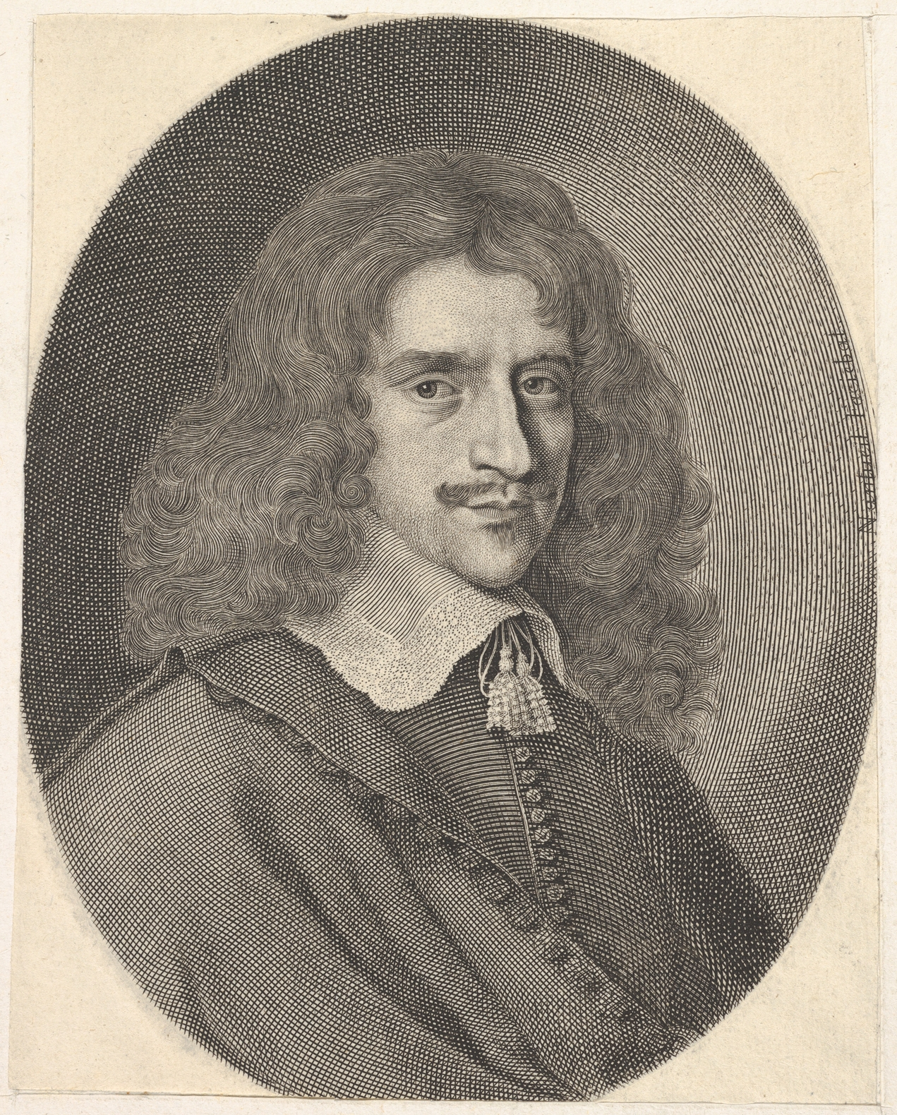 Louis Hesselin ca. 1650, print from the collection of the Metropolitan Museum of Art, Accession Number 2001.647.25, the first of two engraved portraits of Hesselin by Robert Nanteuil